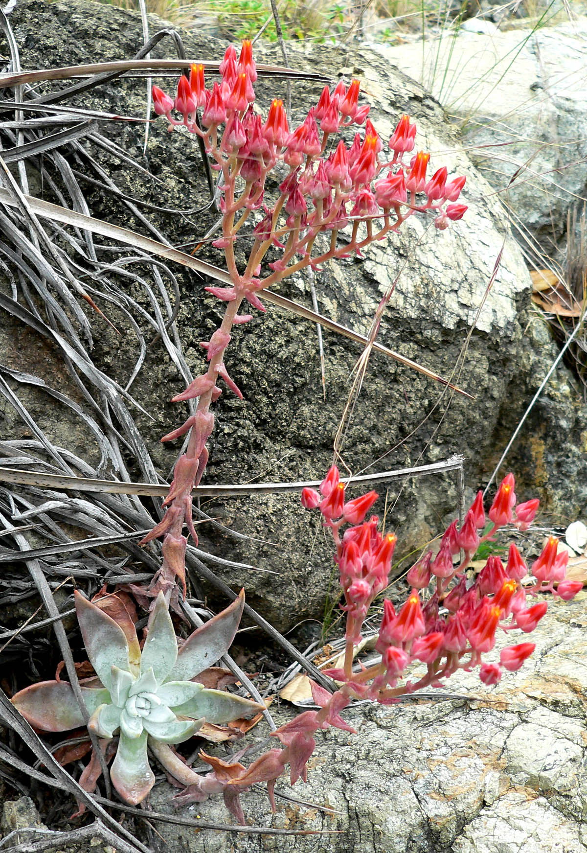 Photo of Dudleya cymosa at the University of California Botanical Garden